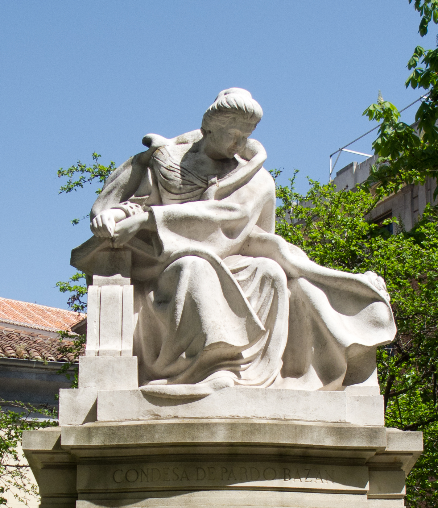 Monument to Emilia Pardo Bazán in Madrid.